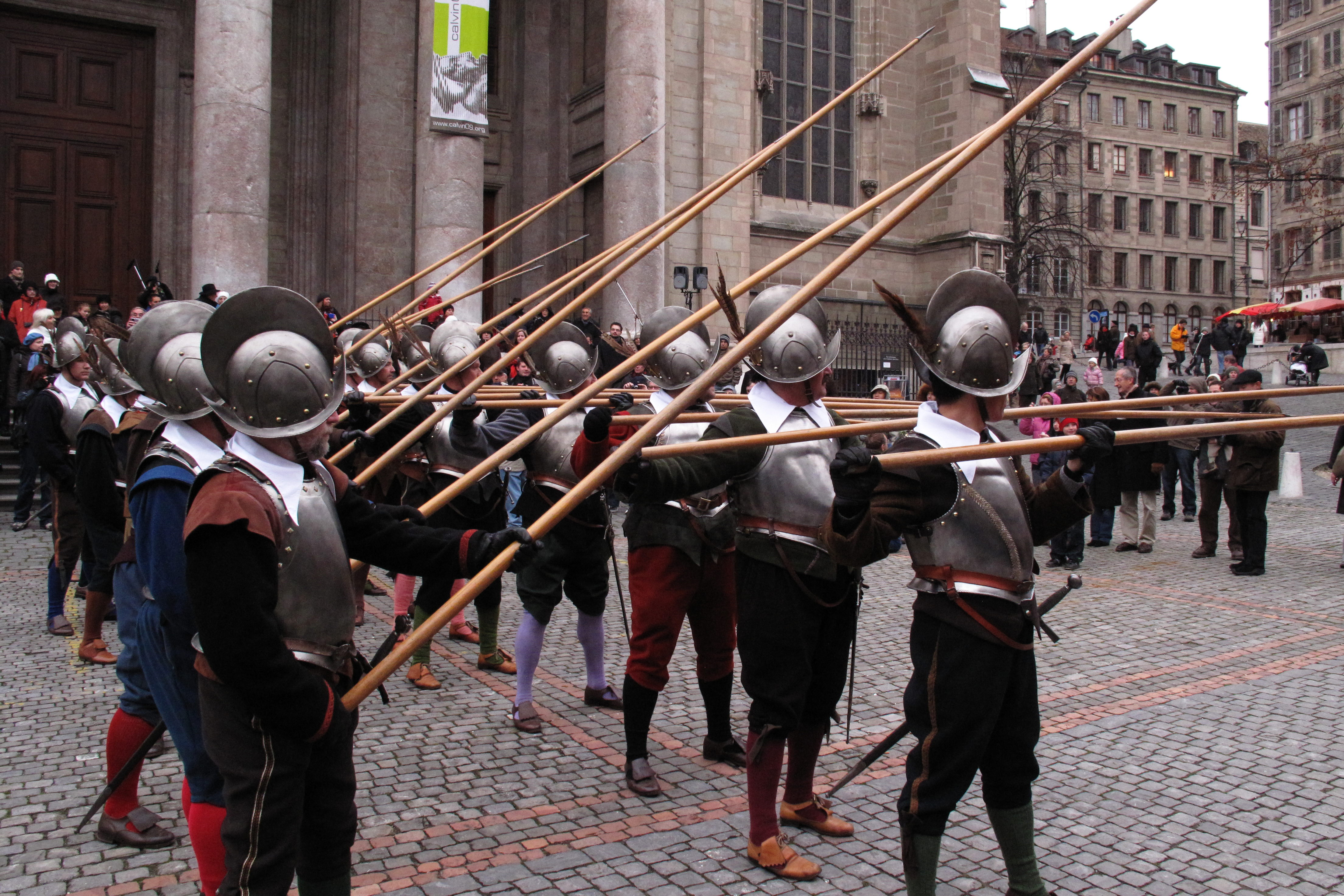 Pike squareRe-enactment during the 2009 Escalade in Geneva